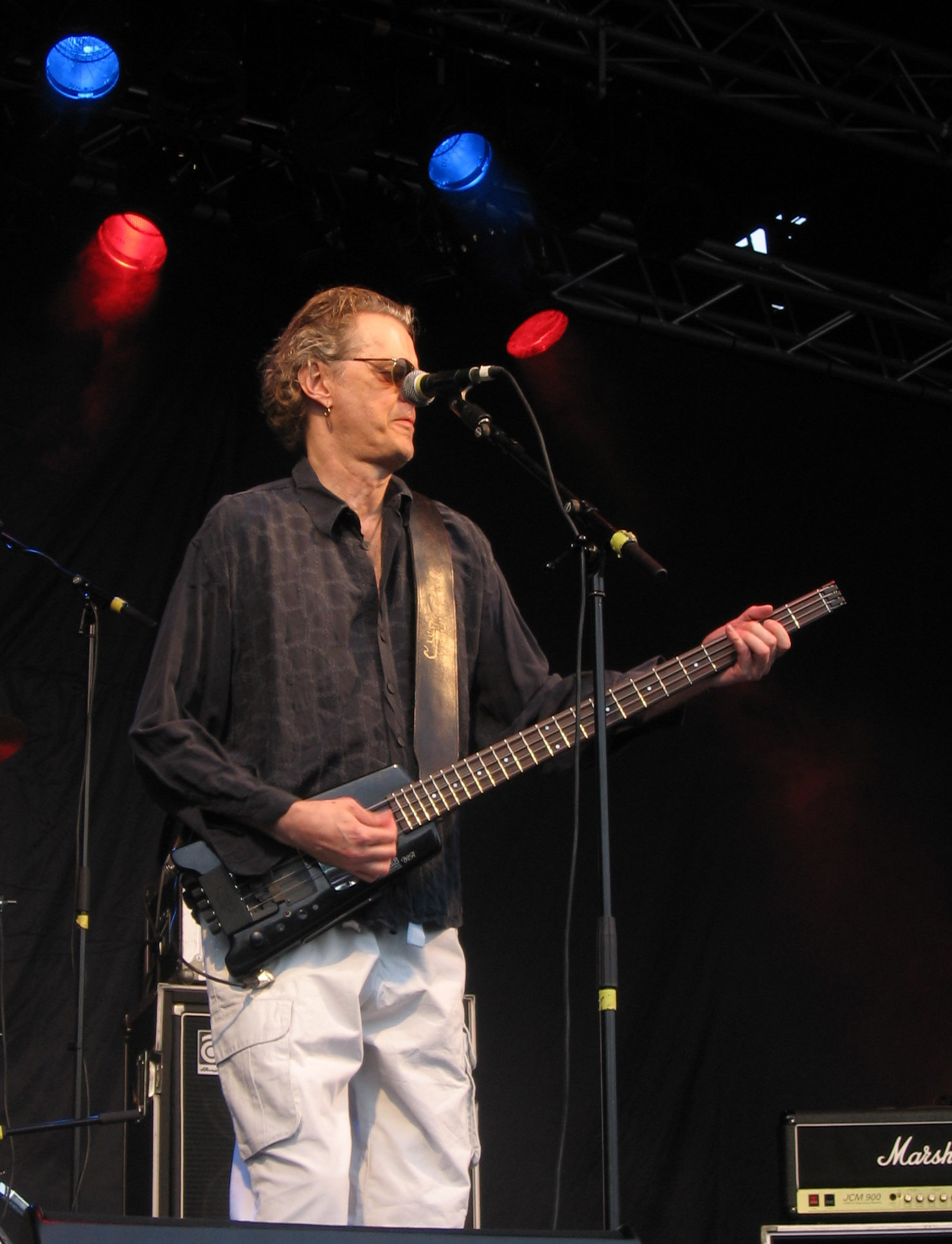 Stig Vig (Per Odeltorp), singer of Dag Vag, Trästockfestivalen 2005